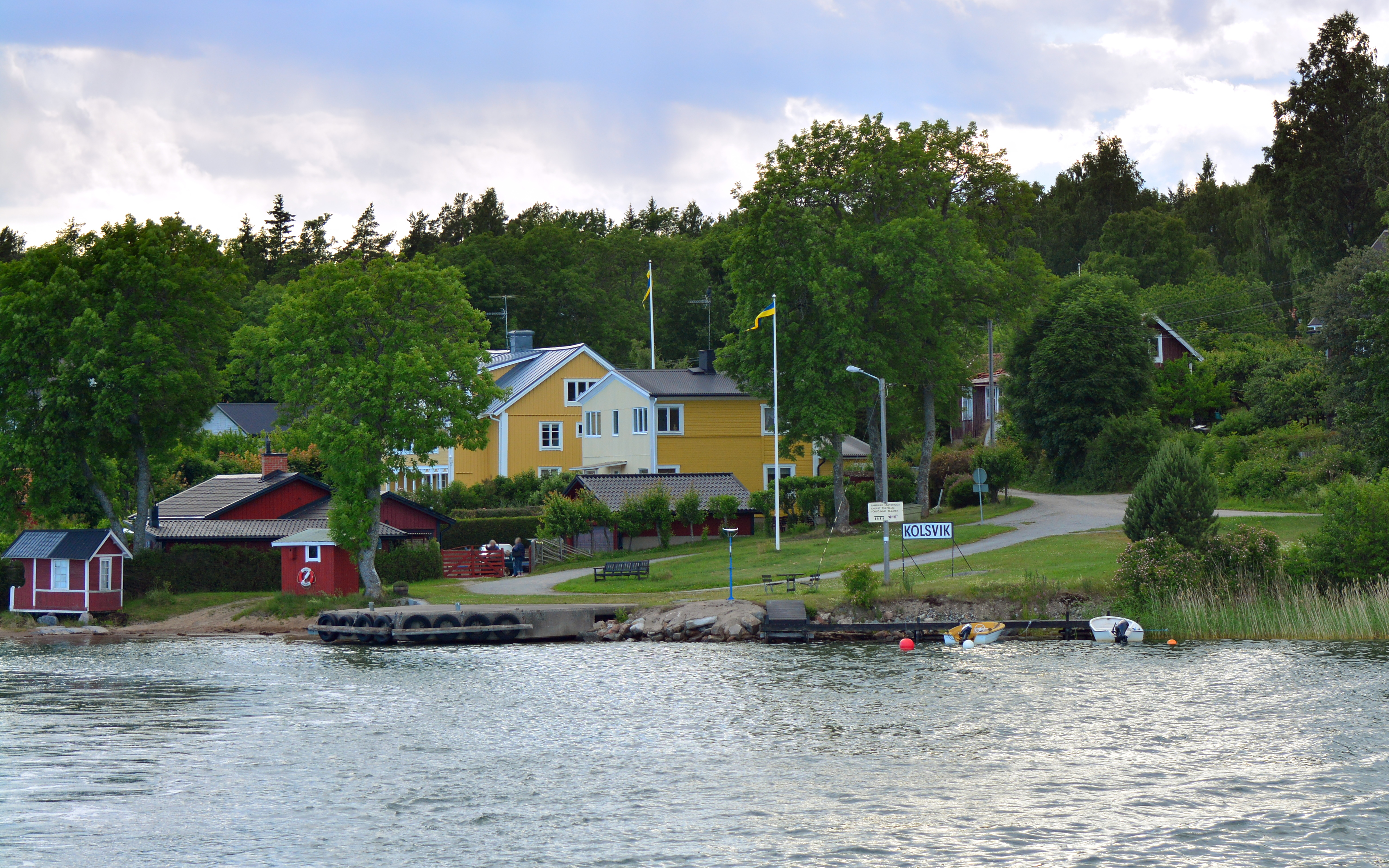 Landing stage, in Kolsvik on the Blidösund coast of Yxlan island in the Stockholm archipelago.